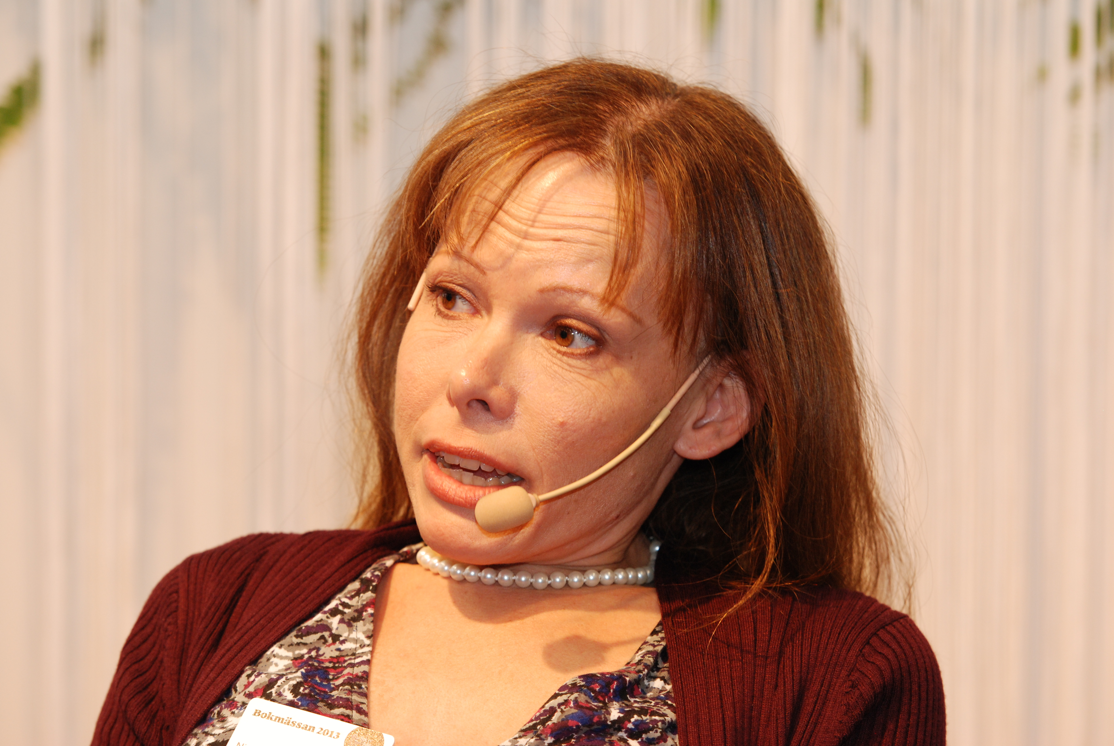 Swedish writer Ninni Schulmann at Göteborg Book Fair 2013.